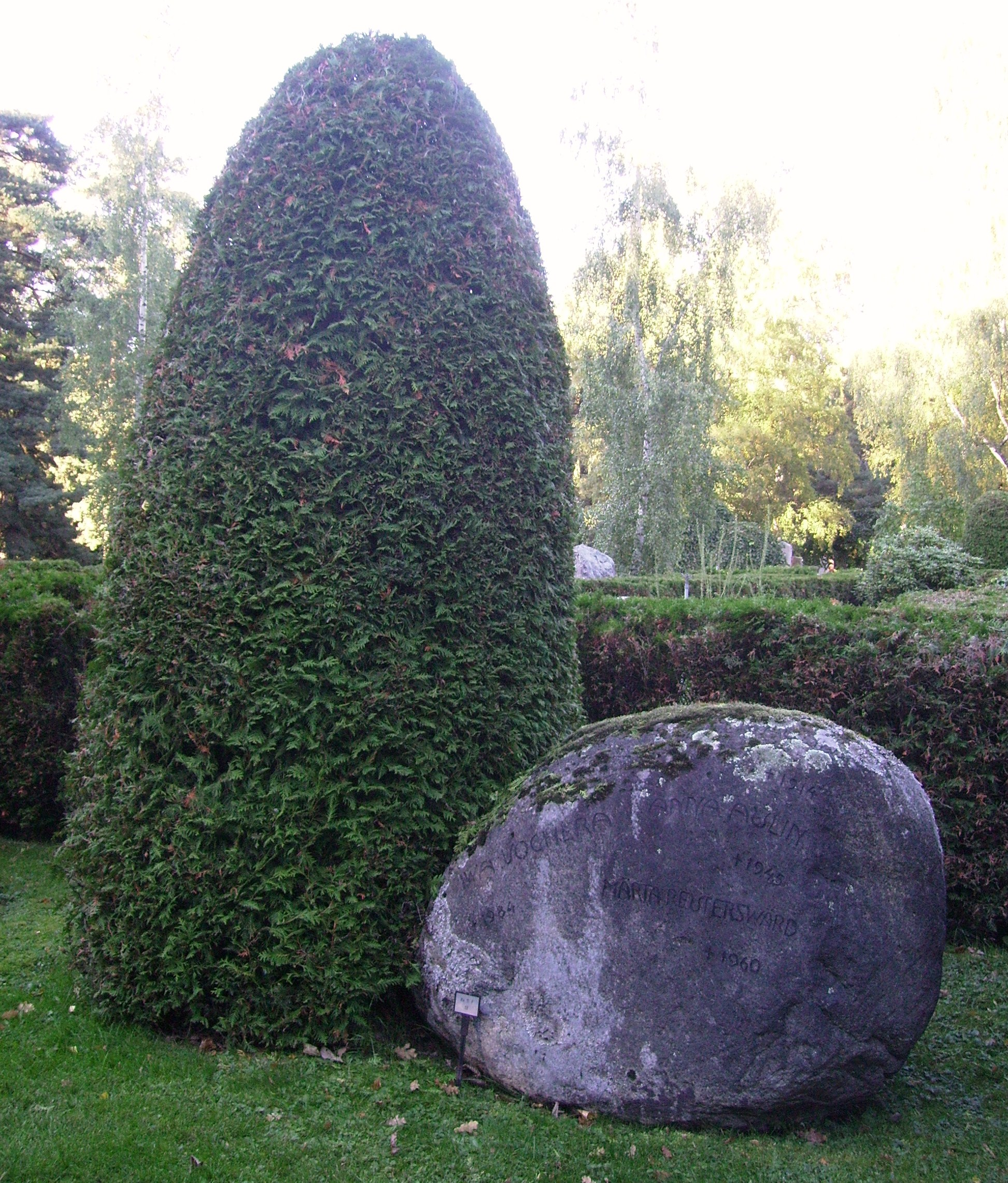 Picture of Tor Aulins grave at Norra begravningsplatsen in Solna